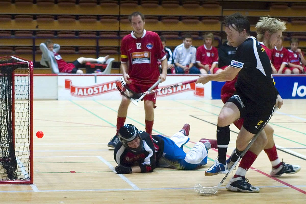 Floorball at Turku, Finland